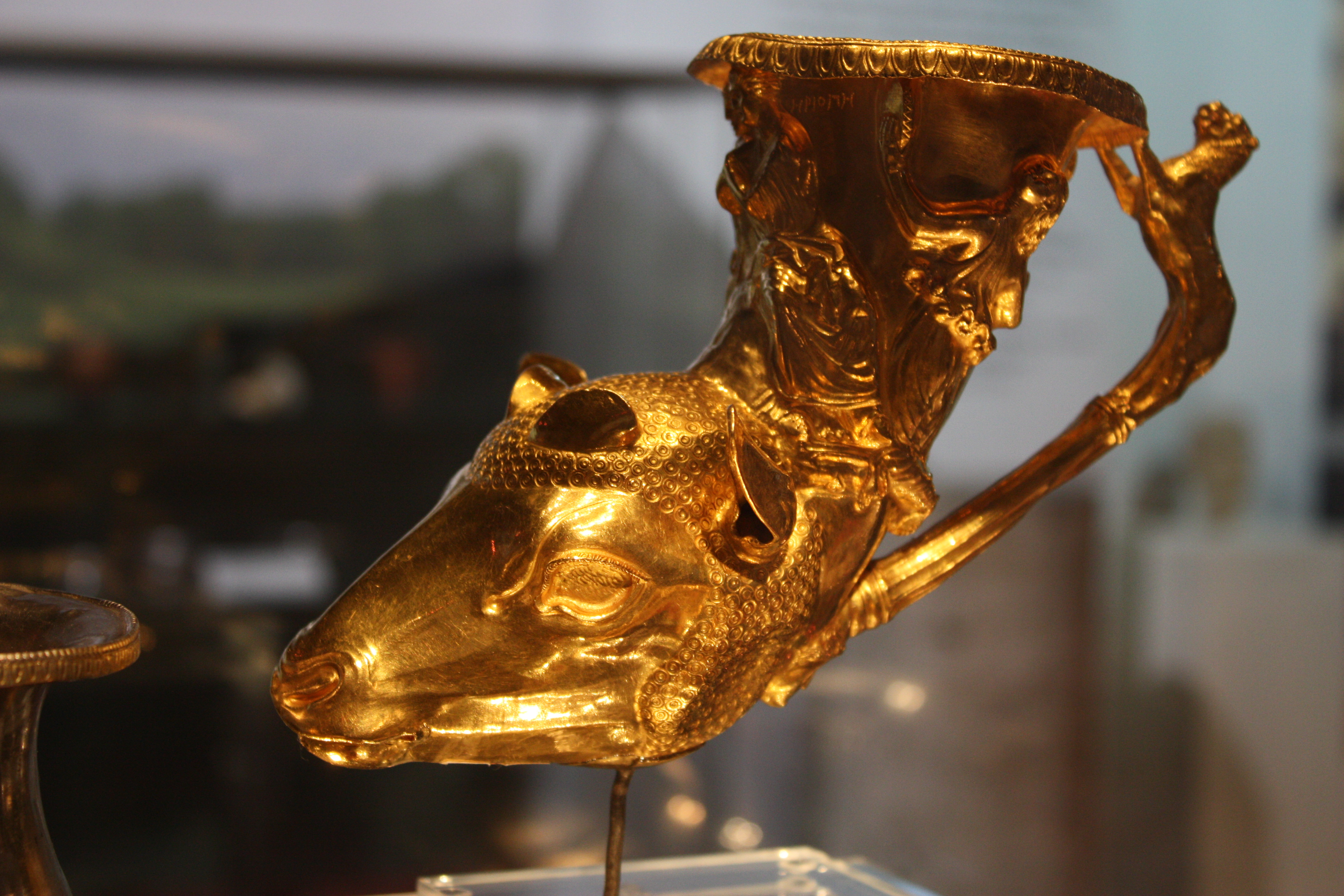 National History Museum, Bulgaria, Sofia, kvartal Bojana